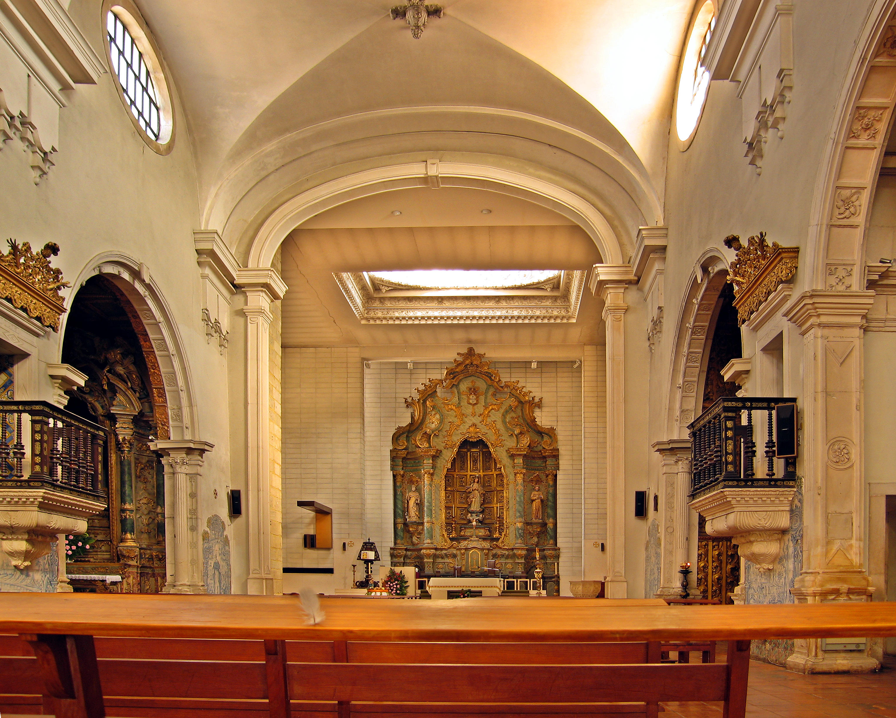 The altar of the Catedral da Sao Domingos at Aveiro